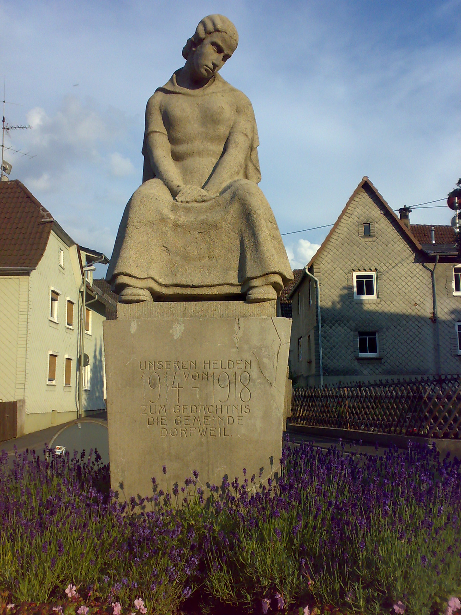 War Memorial in Dorfweil, Schmitten, Deutschland by August Bischoff